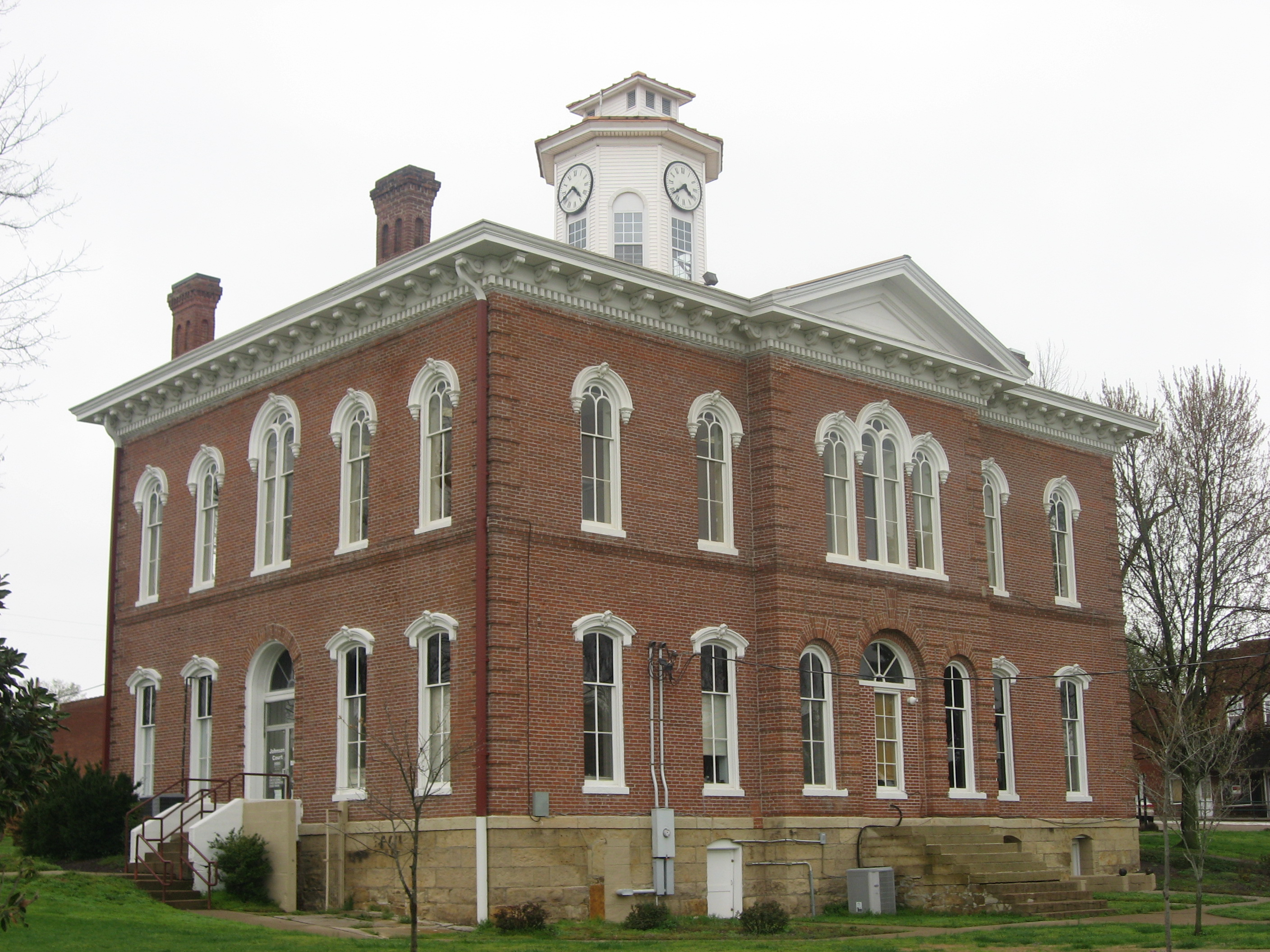 Southern and eastern sides of the Johnson County Courthouse, located on Courthouse Square in Vienna, Illinois, United States. Built in 1868, it is listed on the National Register of Historic Places.